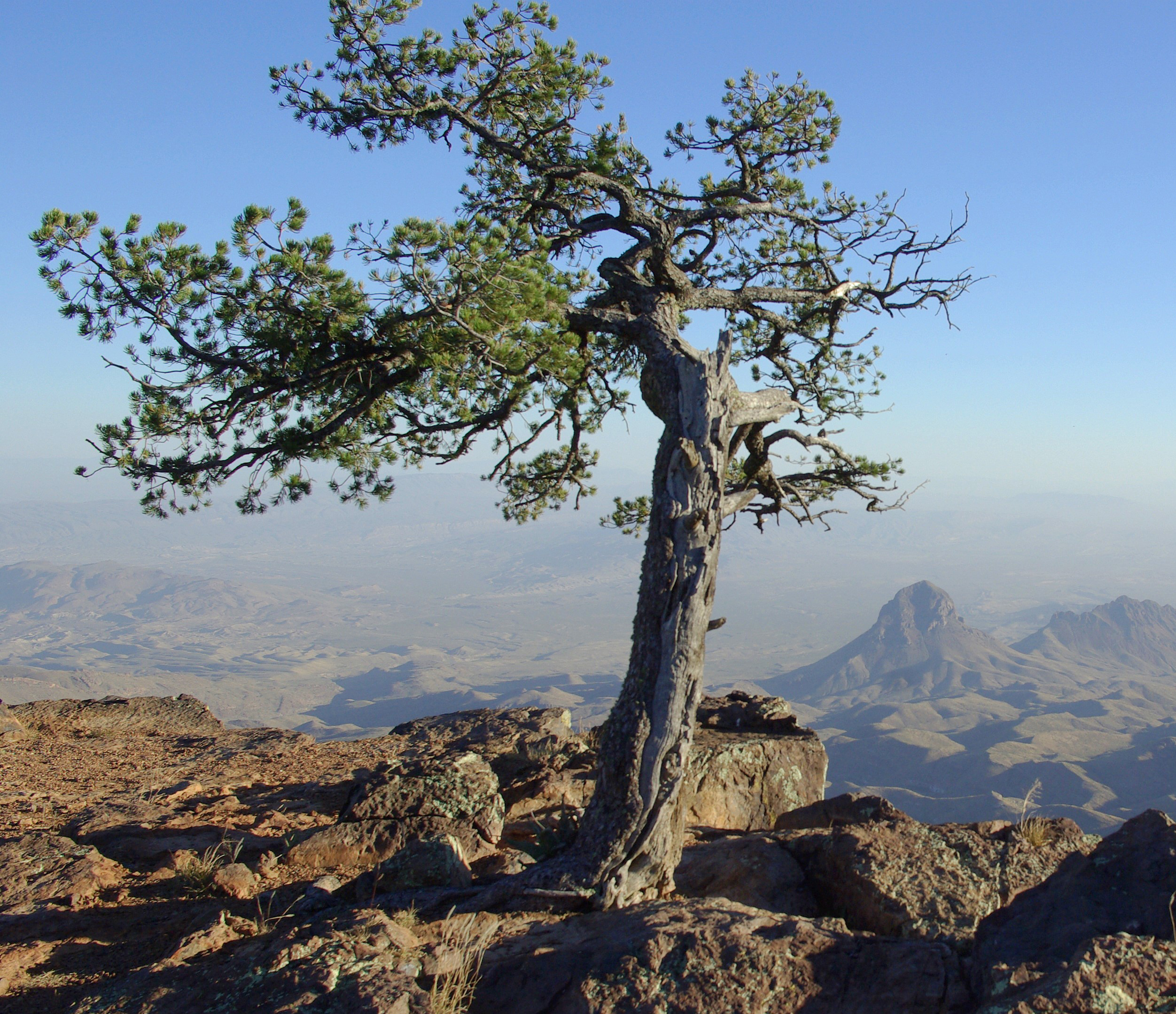 Pinus cembroides, Chisos Mts., Big Bend National Park (Texas, United States).